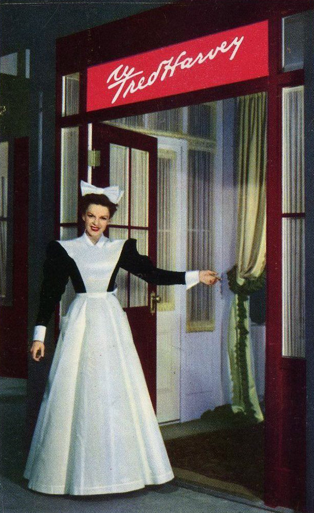 Scene from the film The Harvey Girls (1946) featuring Judy Garland.